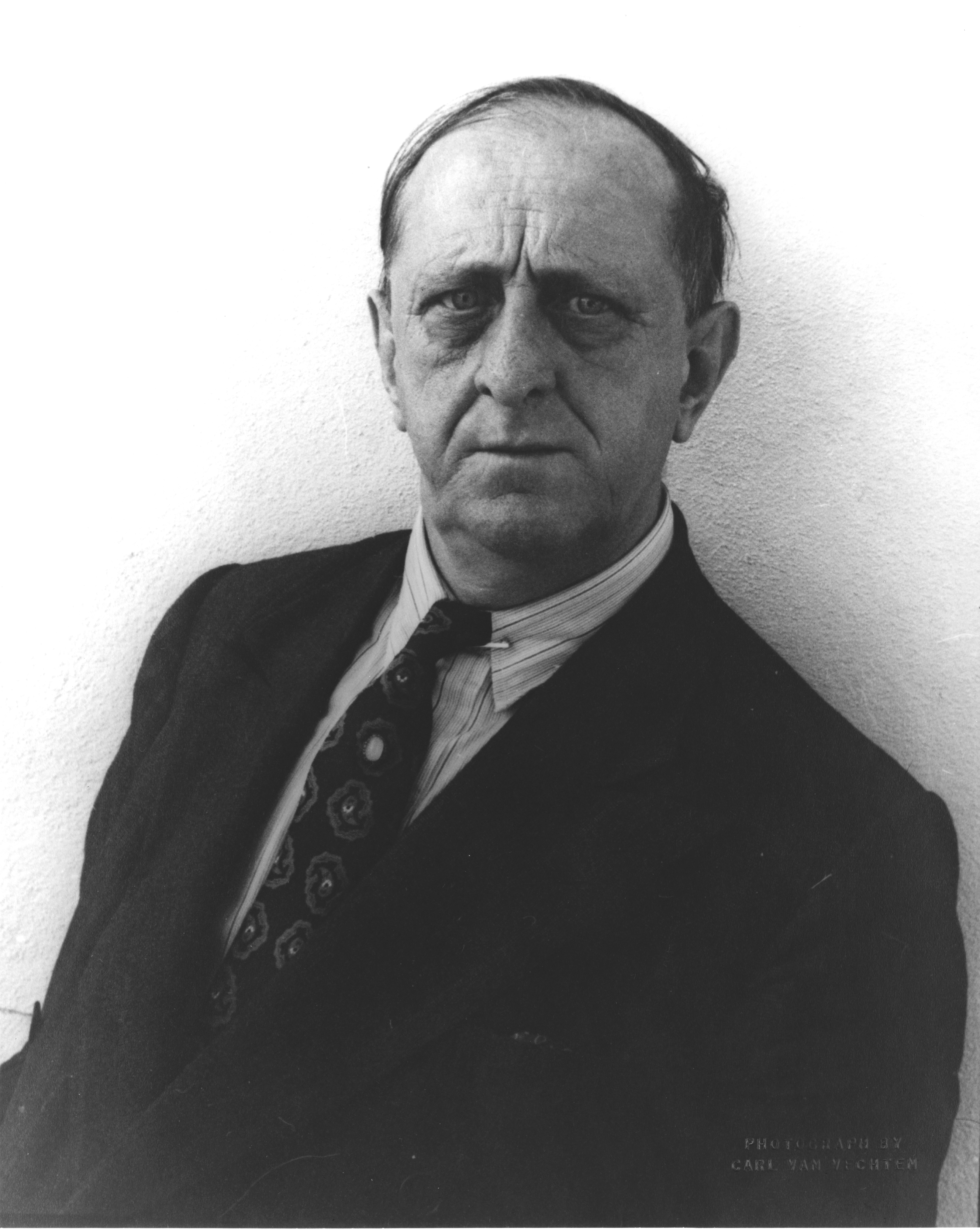 A photo of American artist Marsden Hartley.